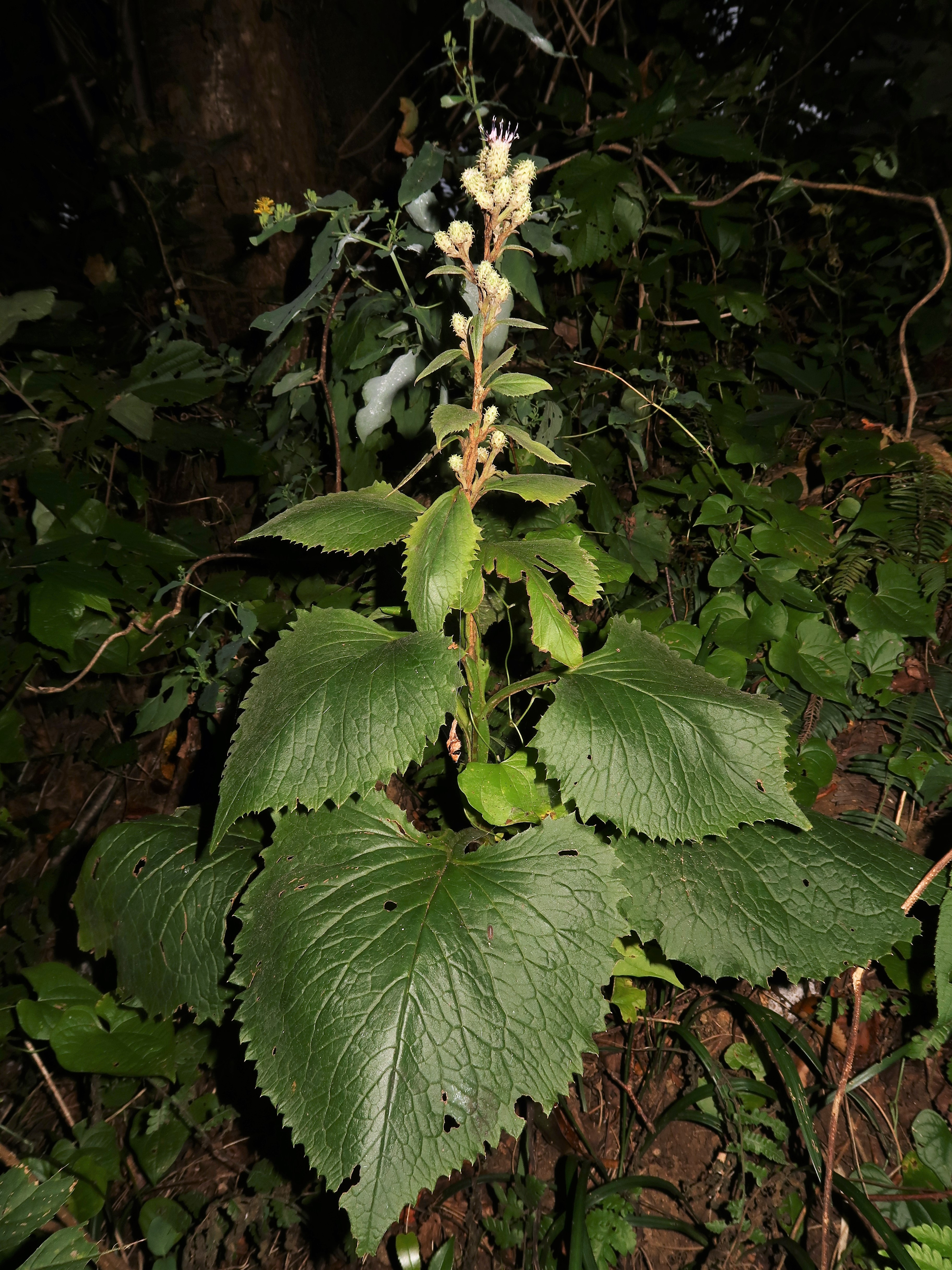 Saussurea hokurokuensis, Kashiwazaki city, Niigata pref., Japan